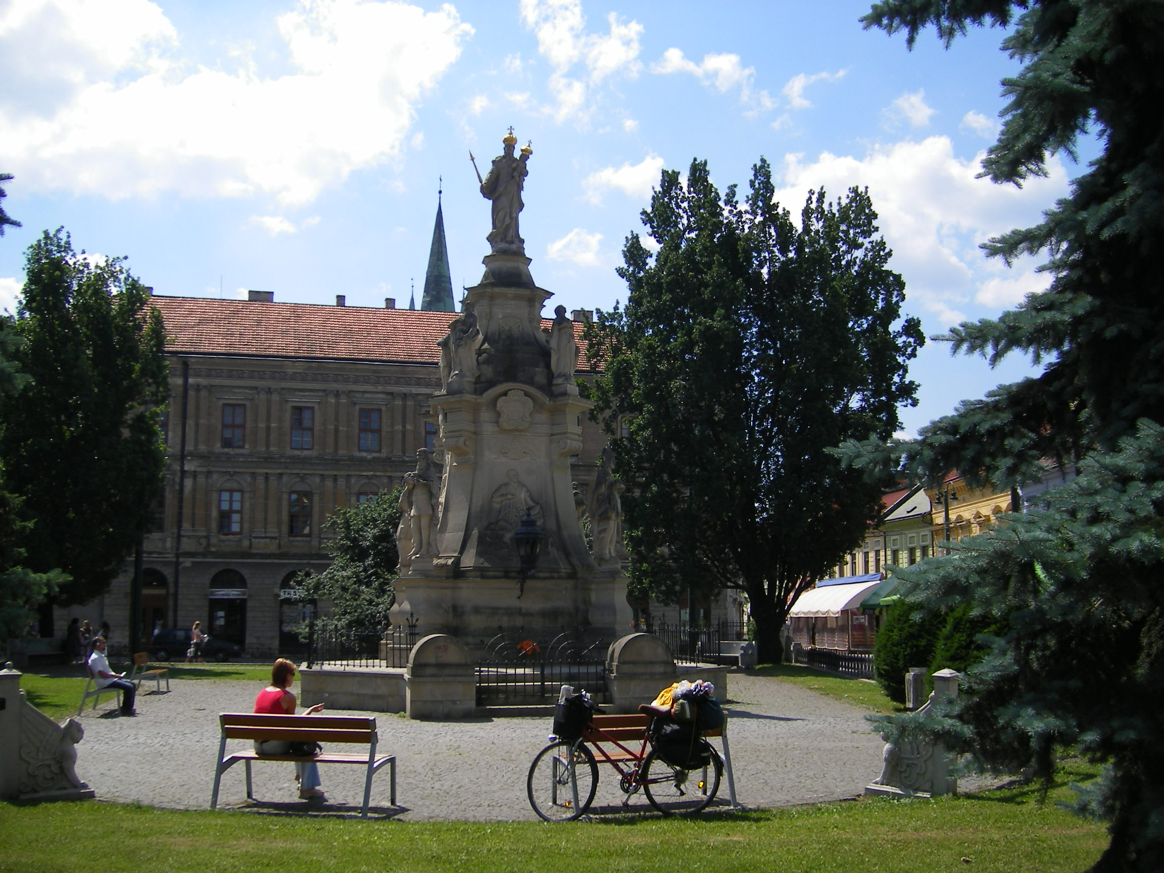 Prešov, St. Trinity Monument